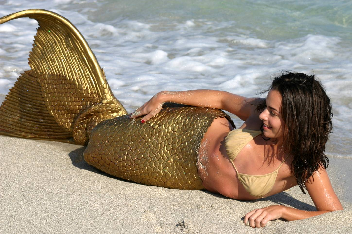 Woman in a Mermaid costume. Miami, USA, 2003